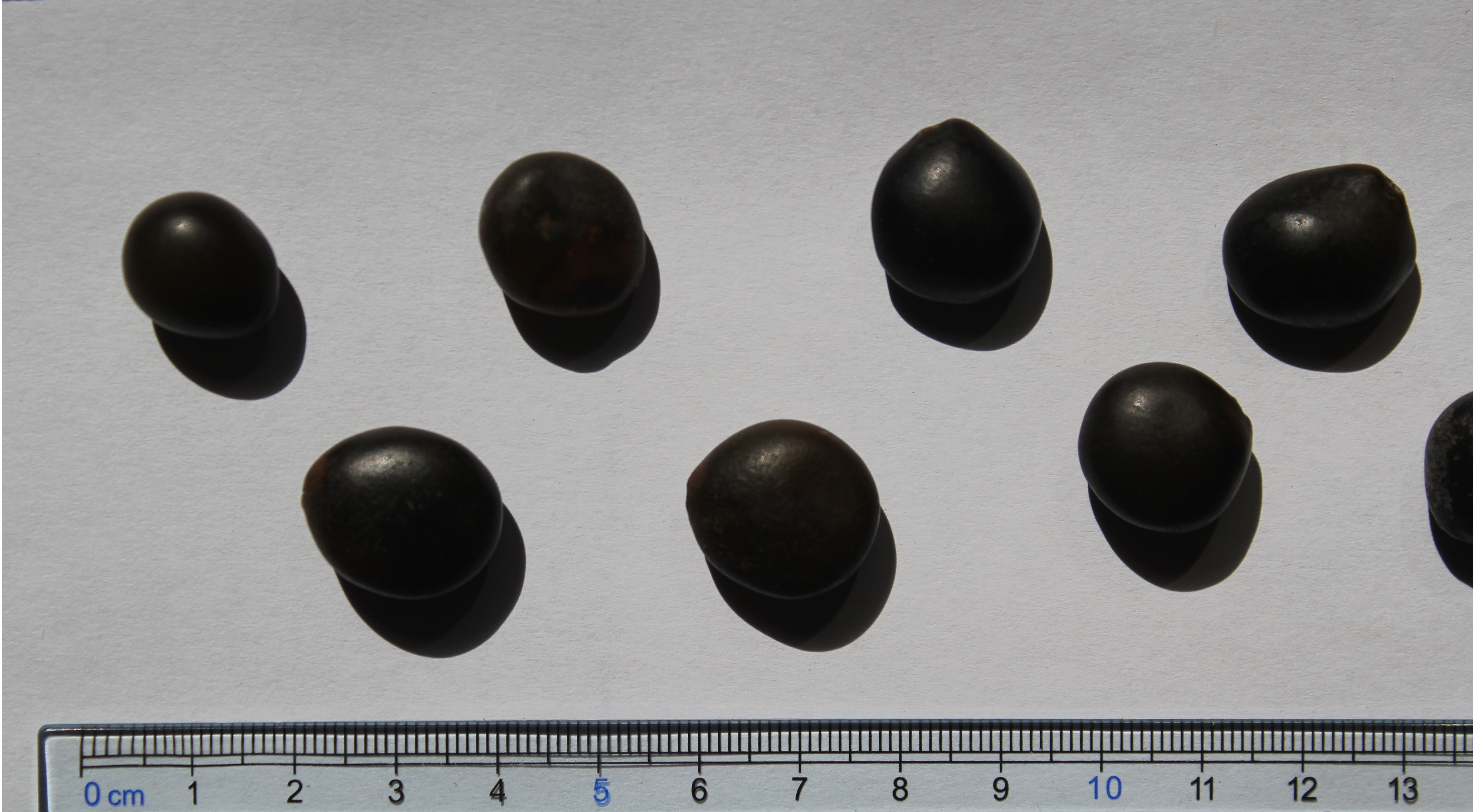 Gymnocladus dioicus (Kentucky coffetree) seeds.